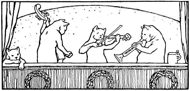 Illustration by Otto Ubbelohde to the fairy tale The Poor Miller's Boy and the Cat